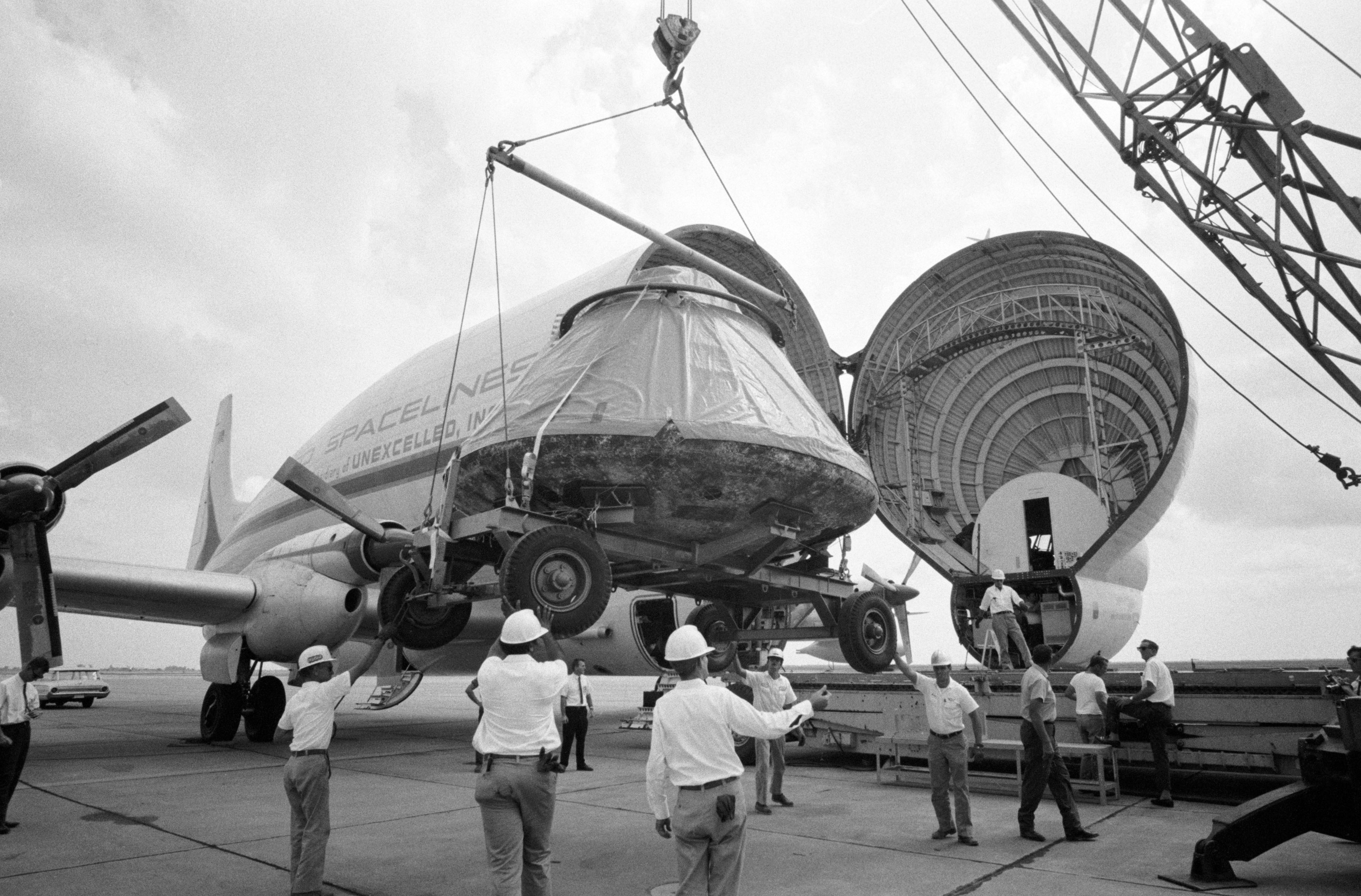 The Apollo 11 spacecraft Command Module (CM) is loaded aboard a Super Guppy Aircraft at Ellington Air Force Base for shipment to the North American Rockwell Corporation at Downey, California. The CM was just released from its postflight quarantine at the Manned Spacecraft Center (MSC). The Apollo 11 spacecraft was flown by astronauts Neil A. Armstrong, commander; Michael Collins, command module pilot; and Edwin E. Aldrin Jr., lunar module pilot, during their lunar landing mission. Note damage to aft heat shield caused by extreme heat of Earth reentry. North American Rockwell is the prime contractor for the Apollo Command and Service Modules (CSM).